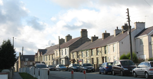 The middle section of Station Road, Llanrug Many of these houses date back to the mid 19th century when Llanrug developed as a slate quarrying dormitory village. The Memorial Institute can be seen at the far end of the terrace. The house in the foreground has been renovated and extended in the past ten years.